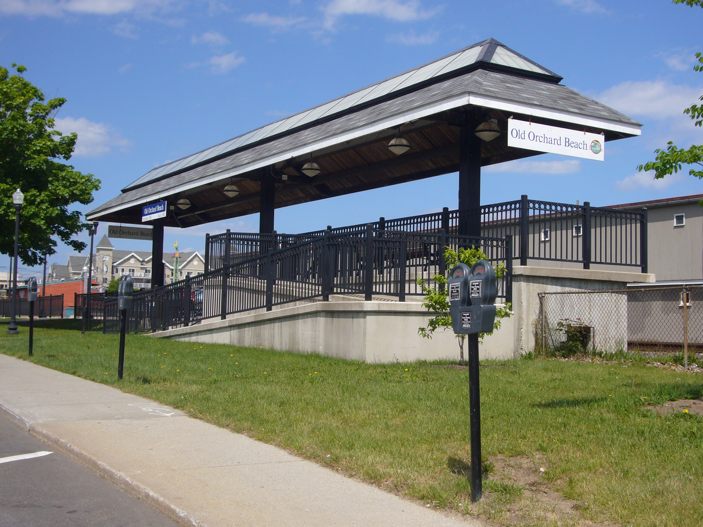 The Downeaster platform at Old Orchard Beach.